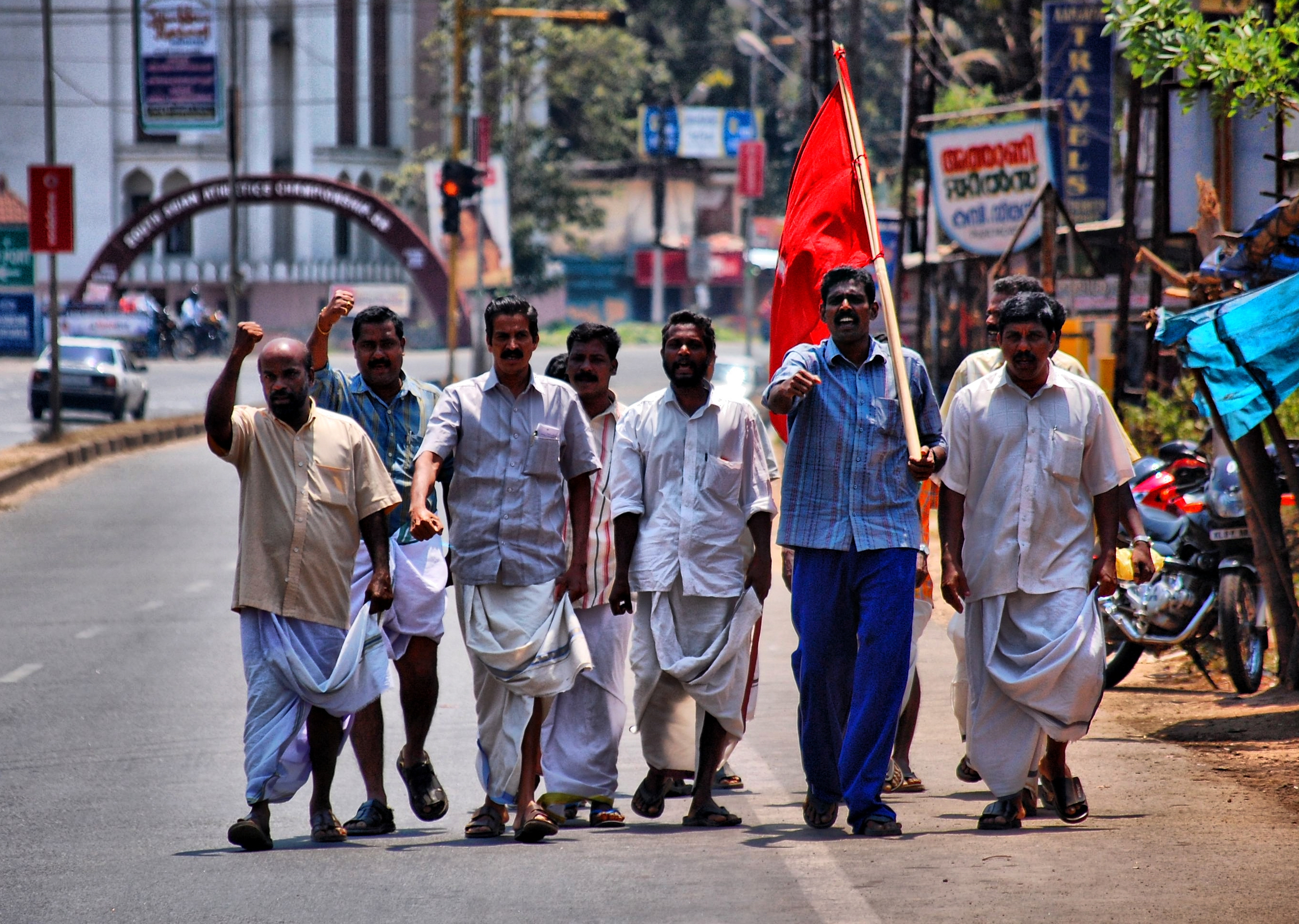 Protests in Kerala